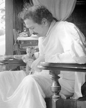 Meher Baba with Lucky the monkey in Hassan, Mysore, India, 1939.